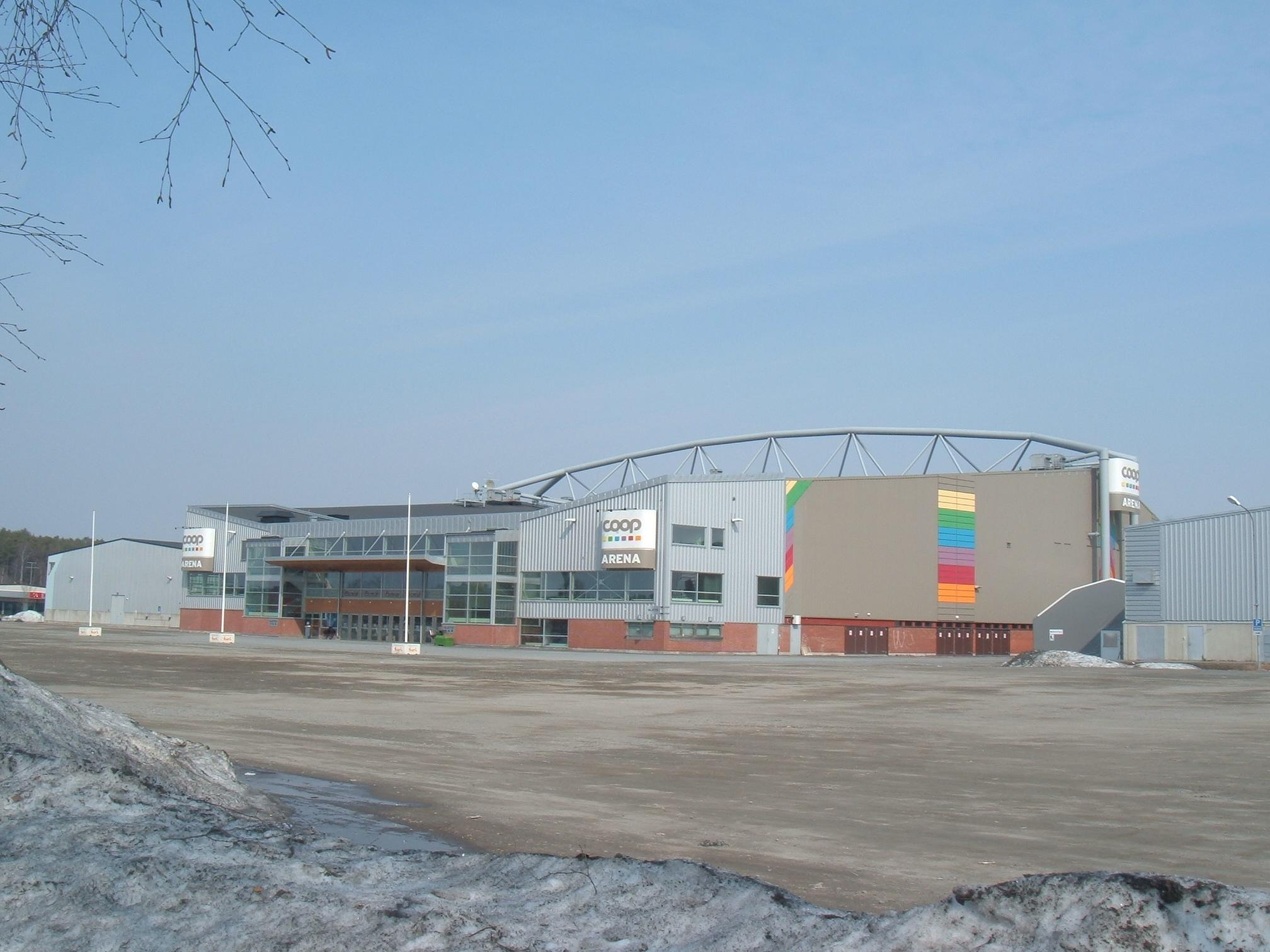 Coop Arena in Luleå, Sweden